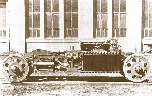 Engine and transmission of ČSD M290.0, "Slovenská strela".